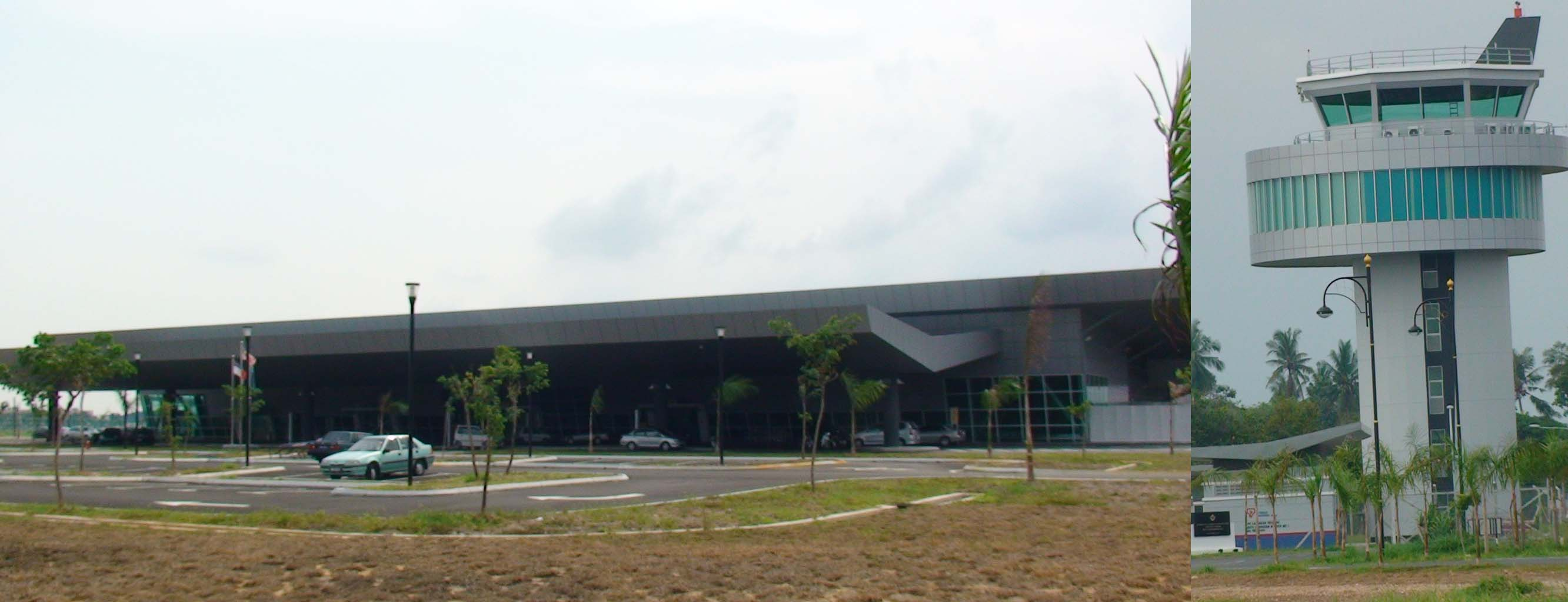 Combined picture of the new terminal and the control tower. If anyone can provide night pictures, that will be better!